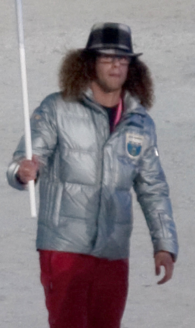 Marino Cardelli from San Marino entering the stadium at the opening ceremonies of the 2010 Winter Olympics